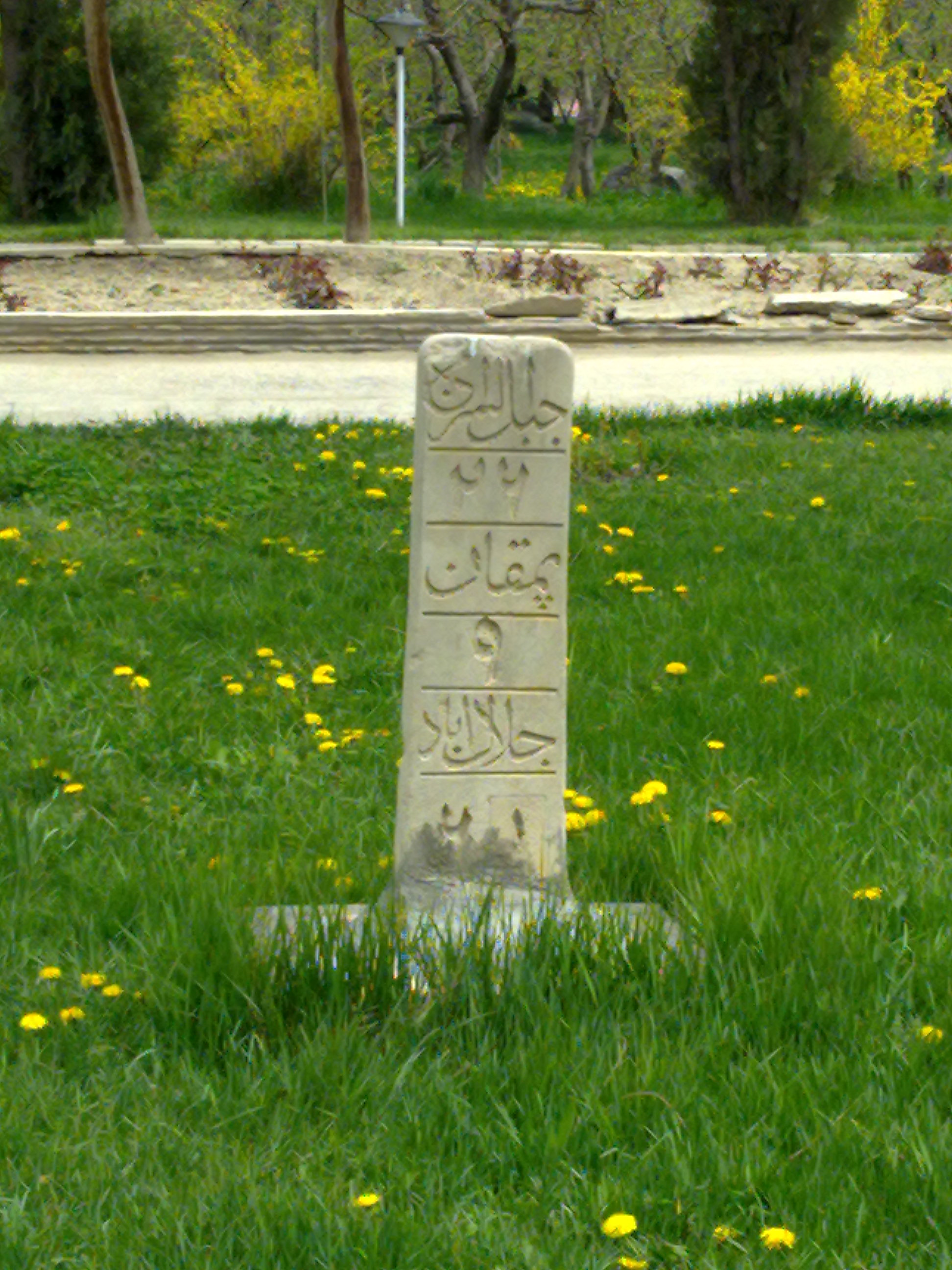 Milestone of Kabul located in Ministry of Foreign affair of Afghanistan, Kabul